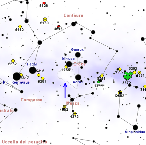 Map of Coalsak nebula